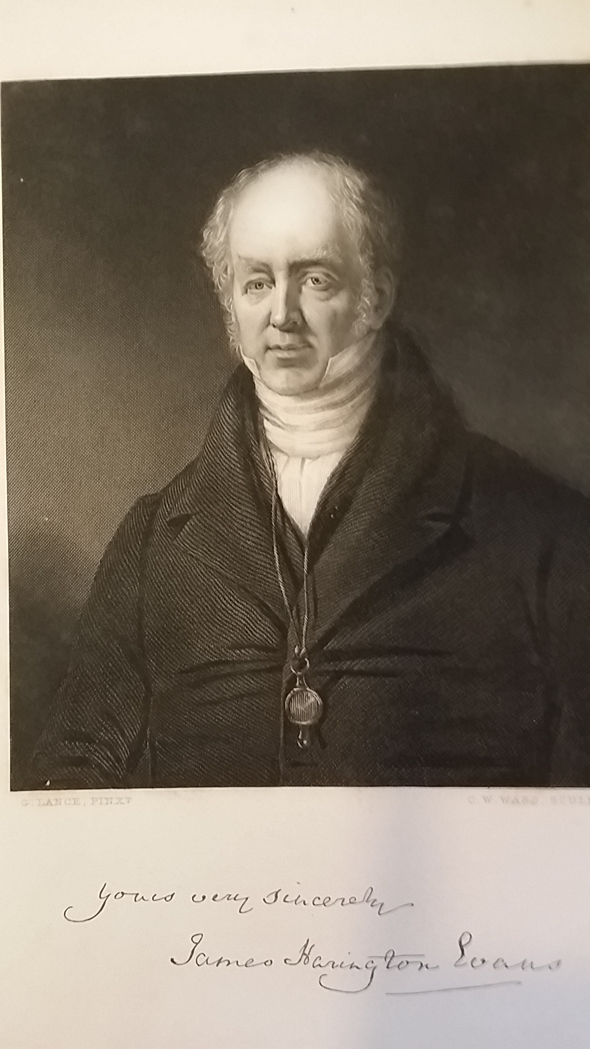 Rev James Harington Evans, Baptist minister (1785-1849) seceded from Church of England 1816